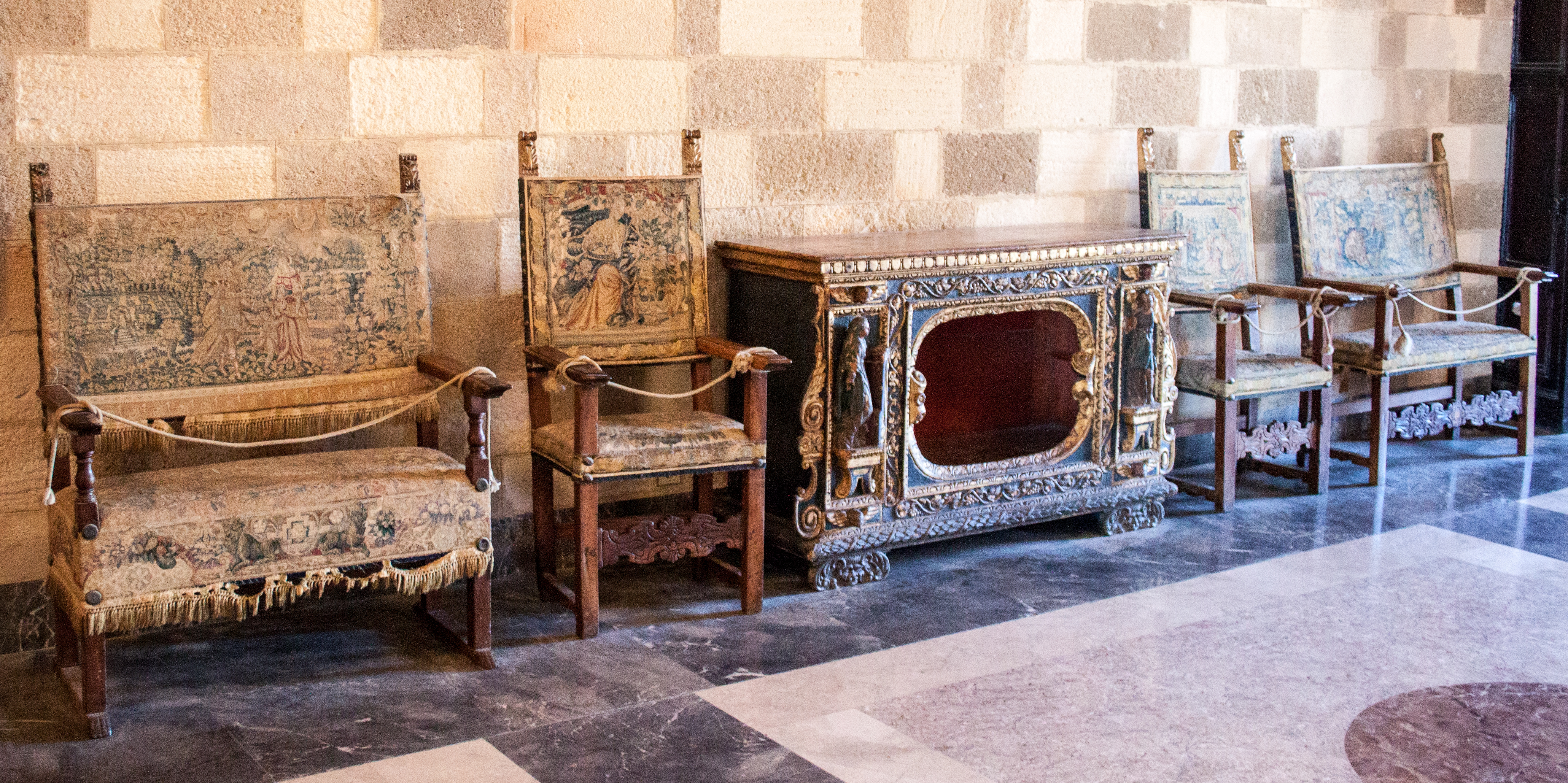 Old furnituret in the palace